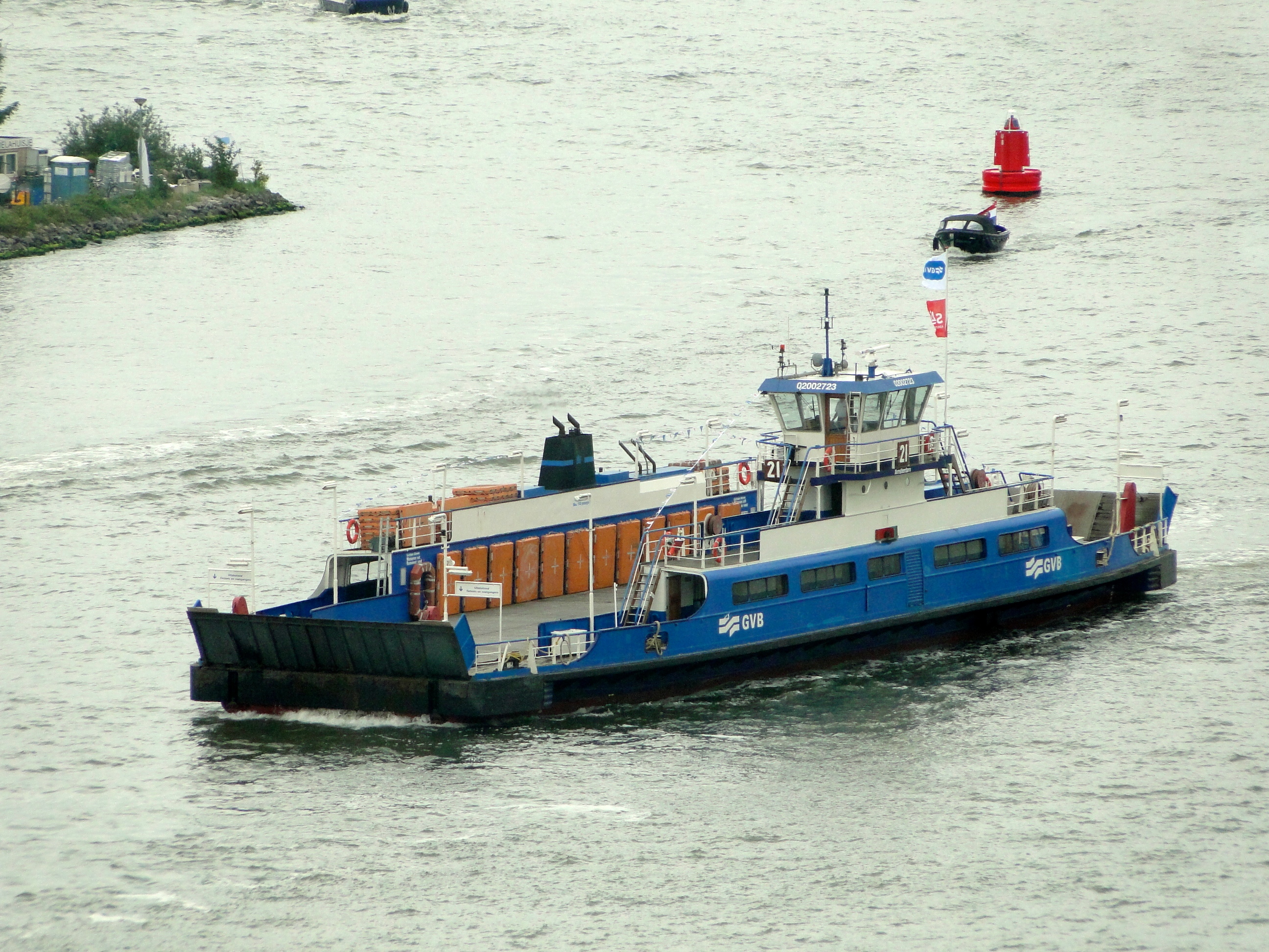 Amsterdam IJ Ferry 21 on it's way to duty